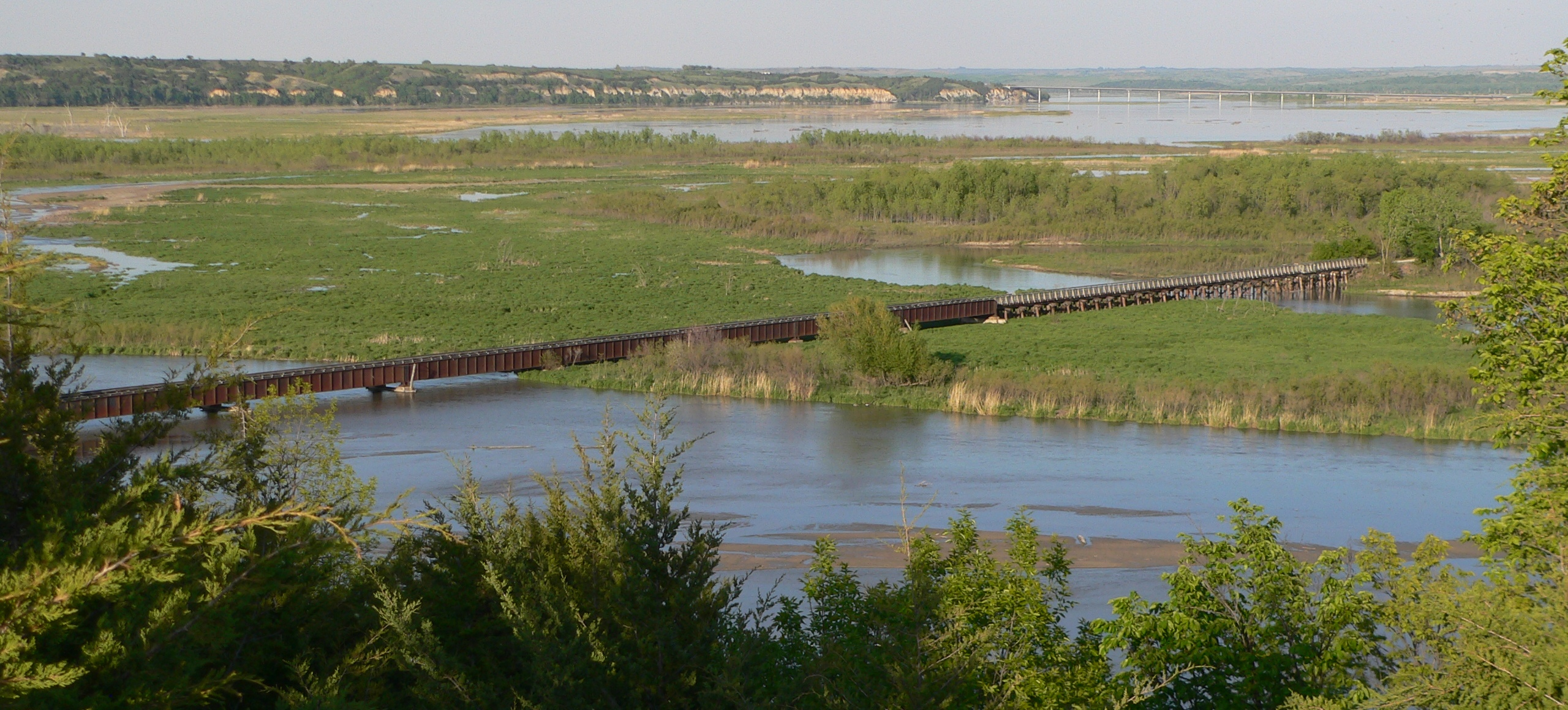 Eastern portion of the Niobrara River Bridge near the mouth of the Niobrara in Knox County, Nebraska; seen from the southwest (upstream). The bridge was built in 1929 to carry the Chicago and North Western Railroad across the Niobrara immediately upstream from its confluence with the Missouri. It consists of three rigid-connected Warren through truss spans at the west end, then seven steel plate through girders, then 29 timber stringer approach spans over the floodplain to the east. It is now a part of Niobrara State Park, where it serves as a footbridge. The bridge is listed in the National Register of Historic Places. The Missouri River flows from left to right in the background of the photo; visible near the upper right corner is Chief Standing Bear Memorial Bridge.